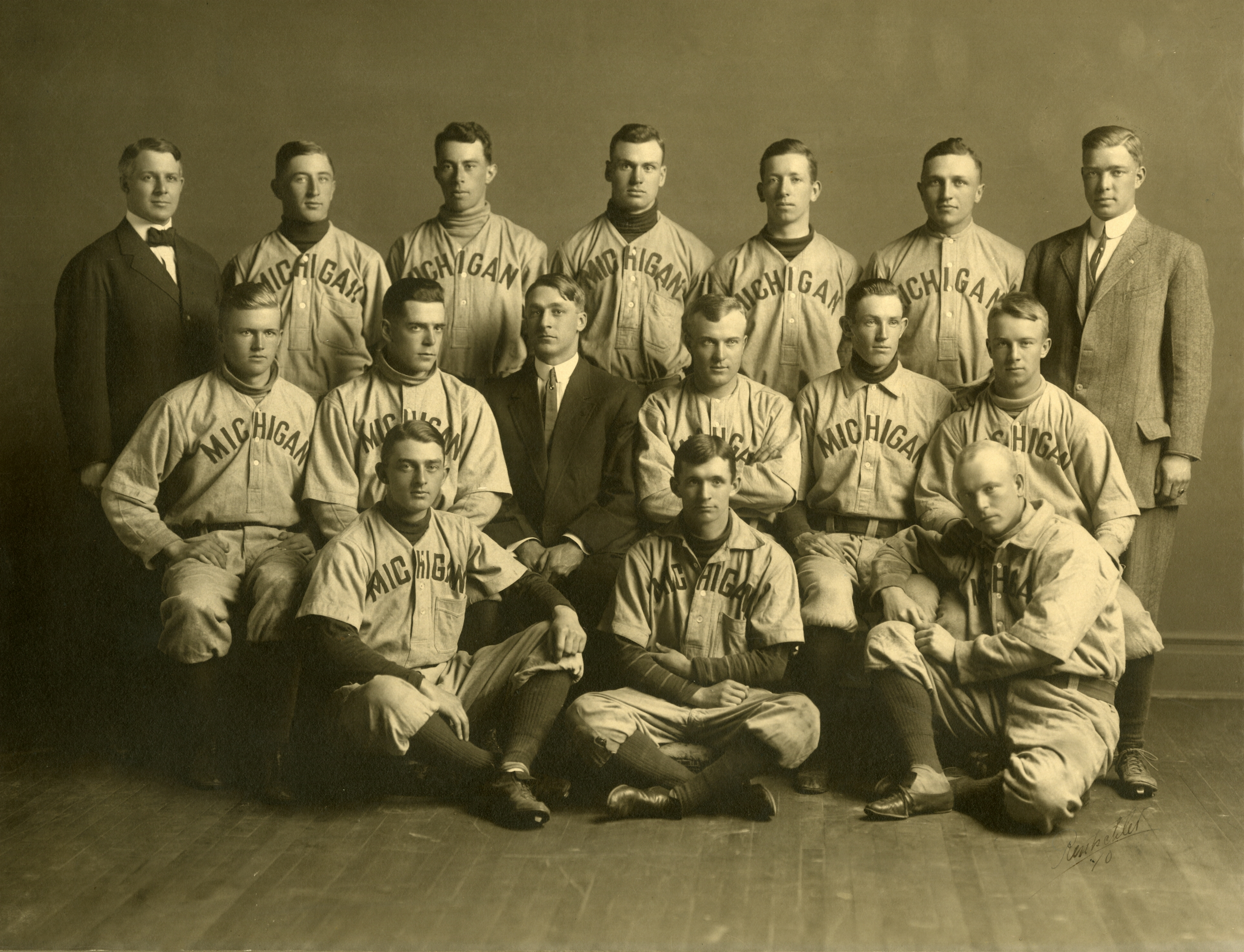 1910 University of Michigan baseball team (Won 17, Lost 8, Rain 2Back row: Philip Bartelme (athletic director), Alfred J. Verheyen (pitcher), H. H. Campbell (pitcher), Elmer Mitchell (center field), John J. Walsh (catcher), Wilfred Waltner (right field), Harold I. Haskins (student manager)Middle row: J. Griffith Hayes (left field), Norman Hill (1st base), Branch Rickey (coach), Clarence W. Enzenroth (captain), Thompson Lothrop (3rd base)Front row: Stanley H. Drake (2nd base), John Campbell (2nd base), Lloyd W. Marlin (short stop)